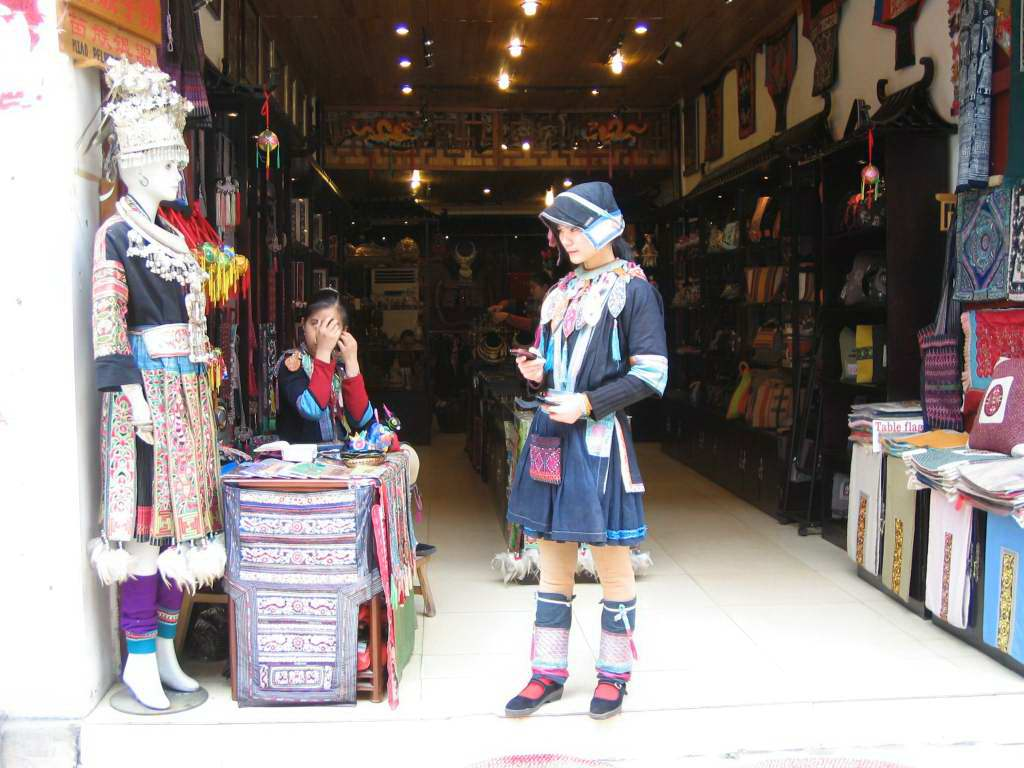 阳朔西街苗族